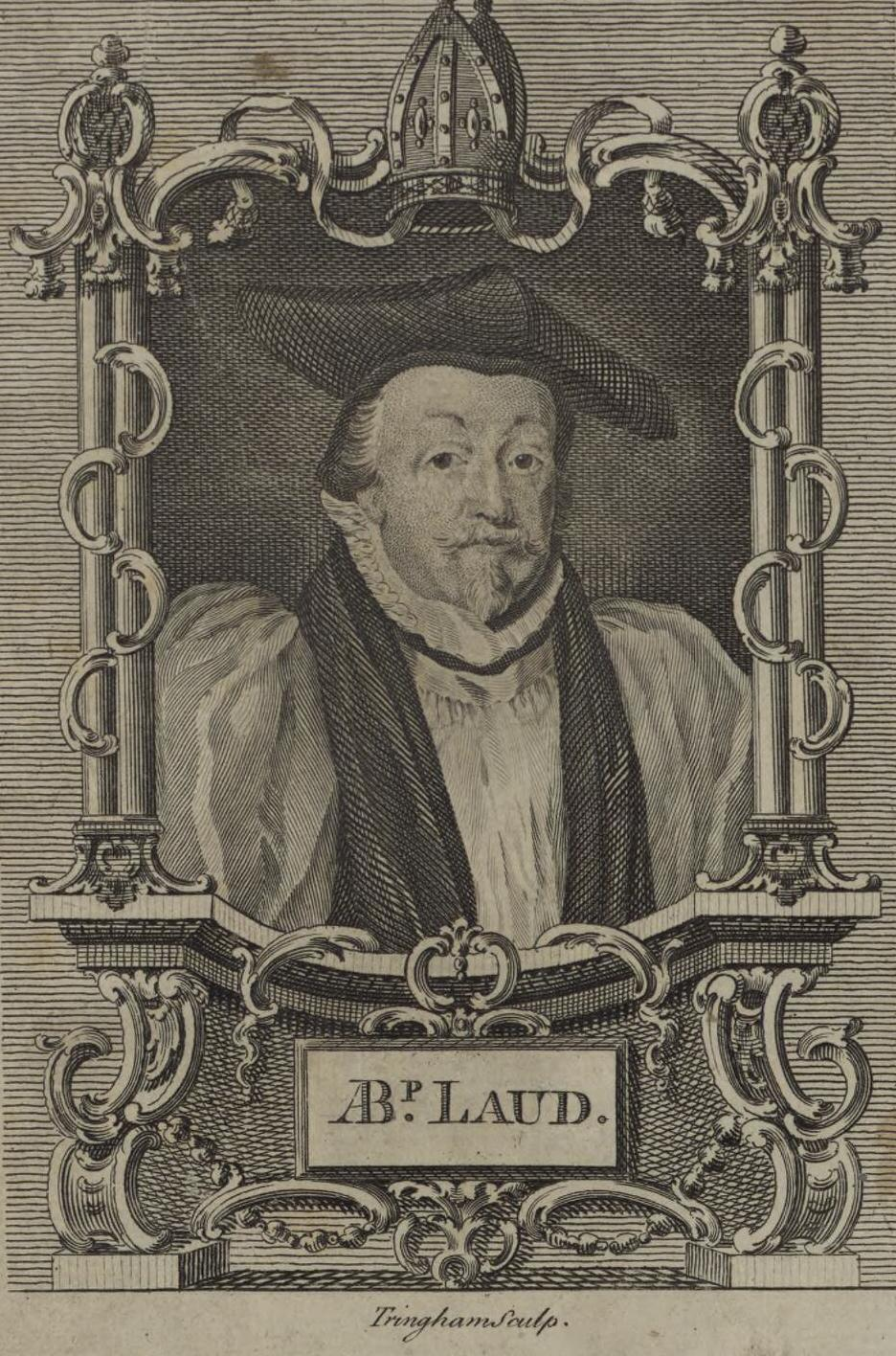 A portrait from the Welsh Portrait Collection at the National Library of Wales. Depicted person: William Laud – Archbishop of Canterbury